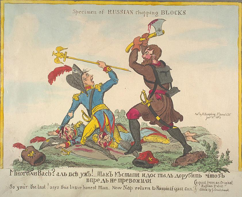 A redrawn version of a Russian caricature (on Napoleon's 1812 campaign in Russia) by British artist George Cruikshank. A Russian peasant holds a bloody axe above Frenchman's head, ready to strike. On the ground are the bodies of two French officers, whose skulls have been split by the Russian soldier's axe. British caricature. Dorothy George translates the caption as: "There were hordes of you, weren't there? Well, that's the lot! That's what you were up to, trying to hack your way through; in future you won't give any trouble!"